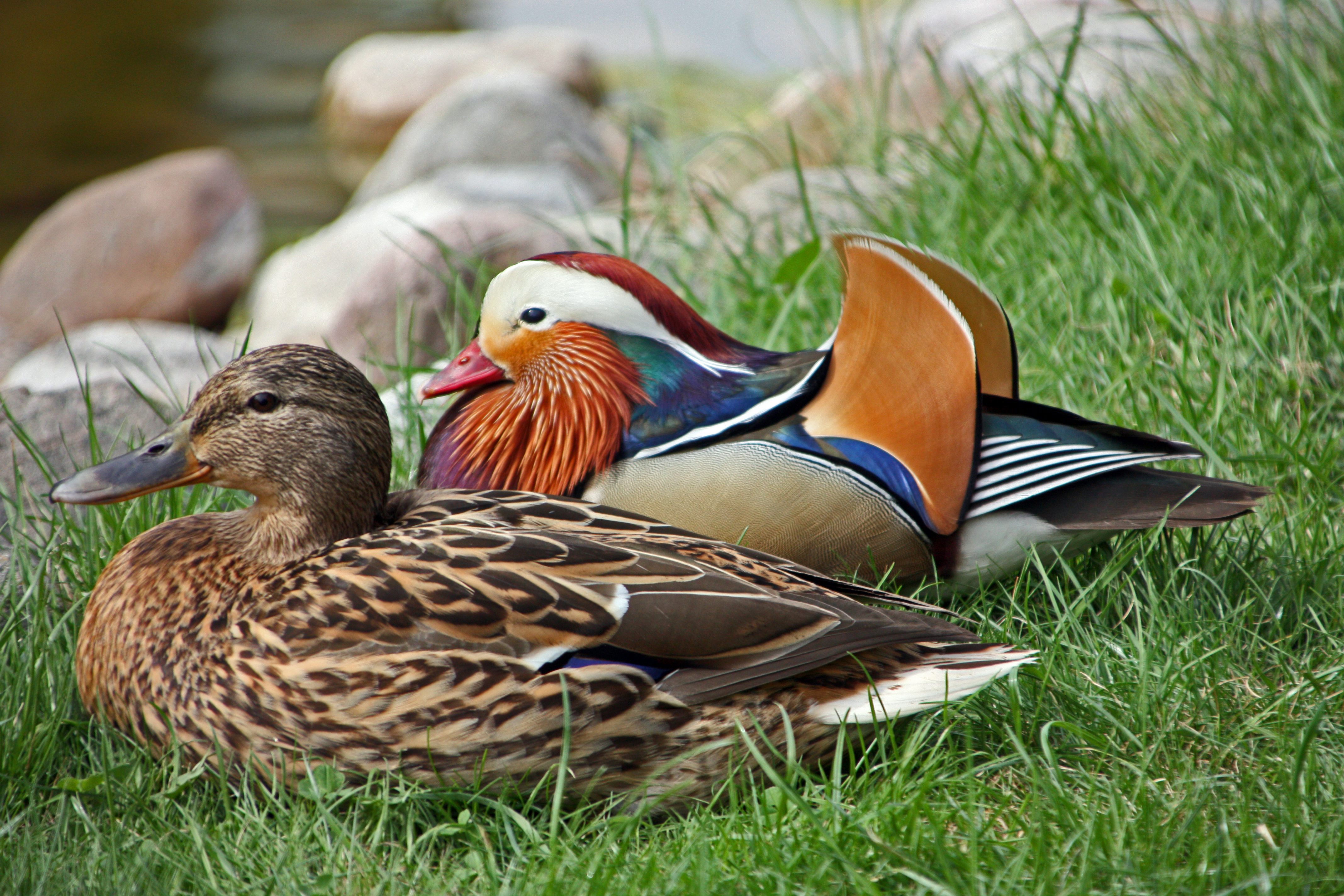 Mandarin duck (male) and mallard (female), photo taken in Stara Iwiczna, Poland